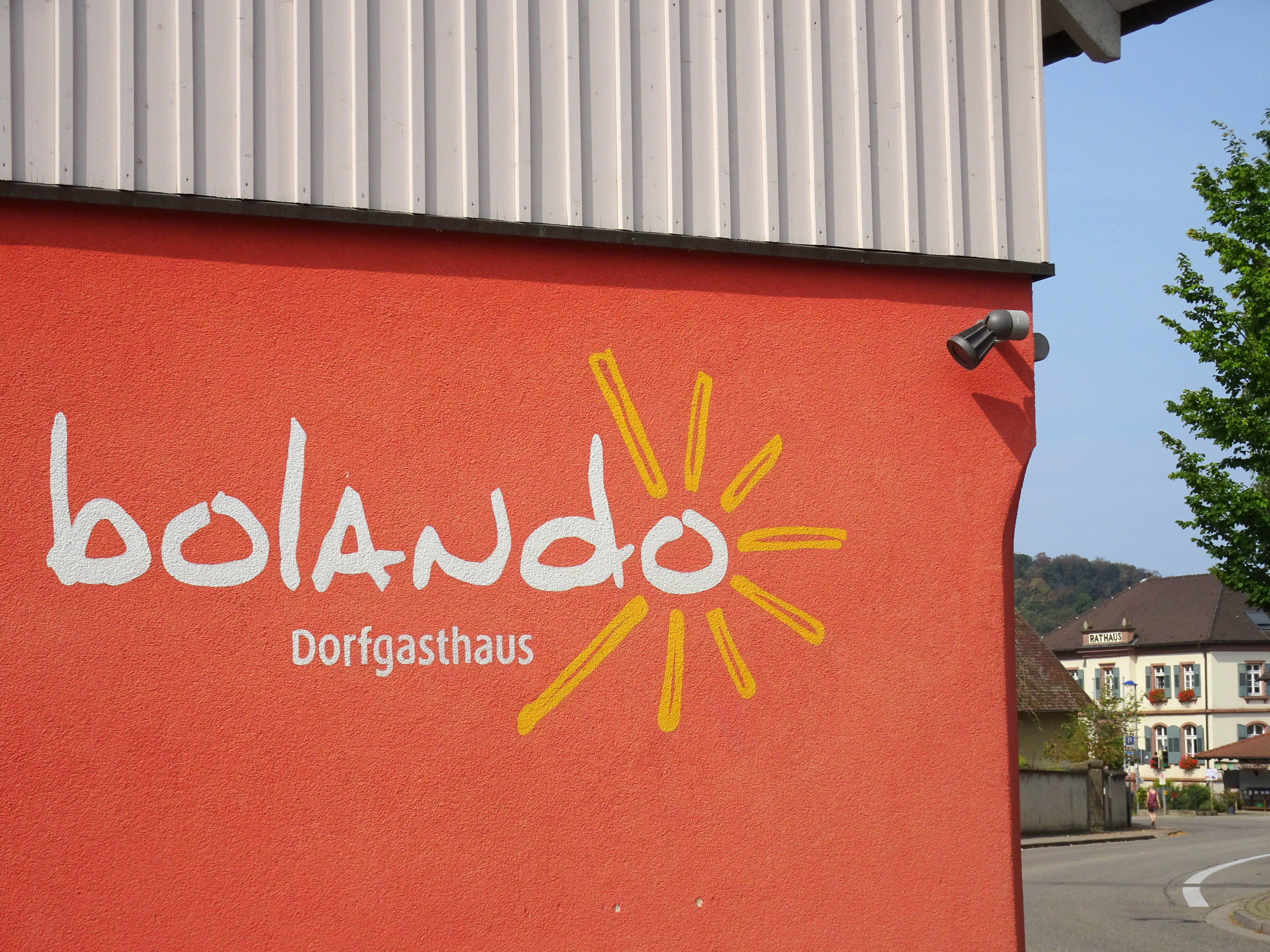 the logo of the village inn bolando